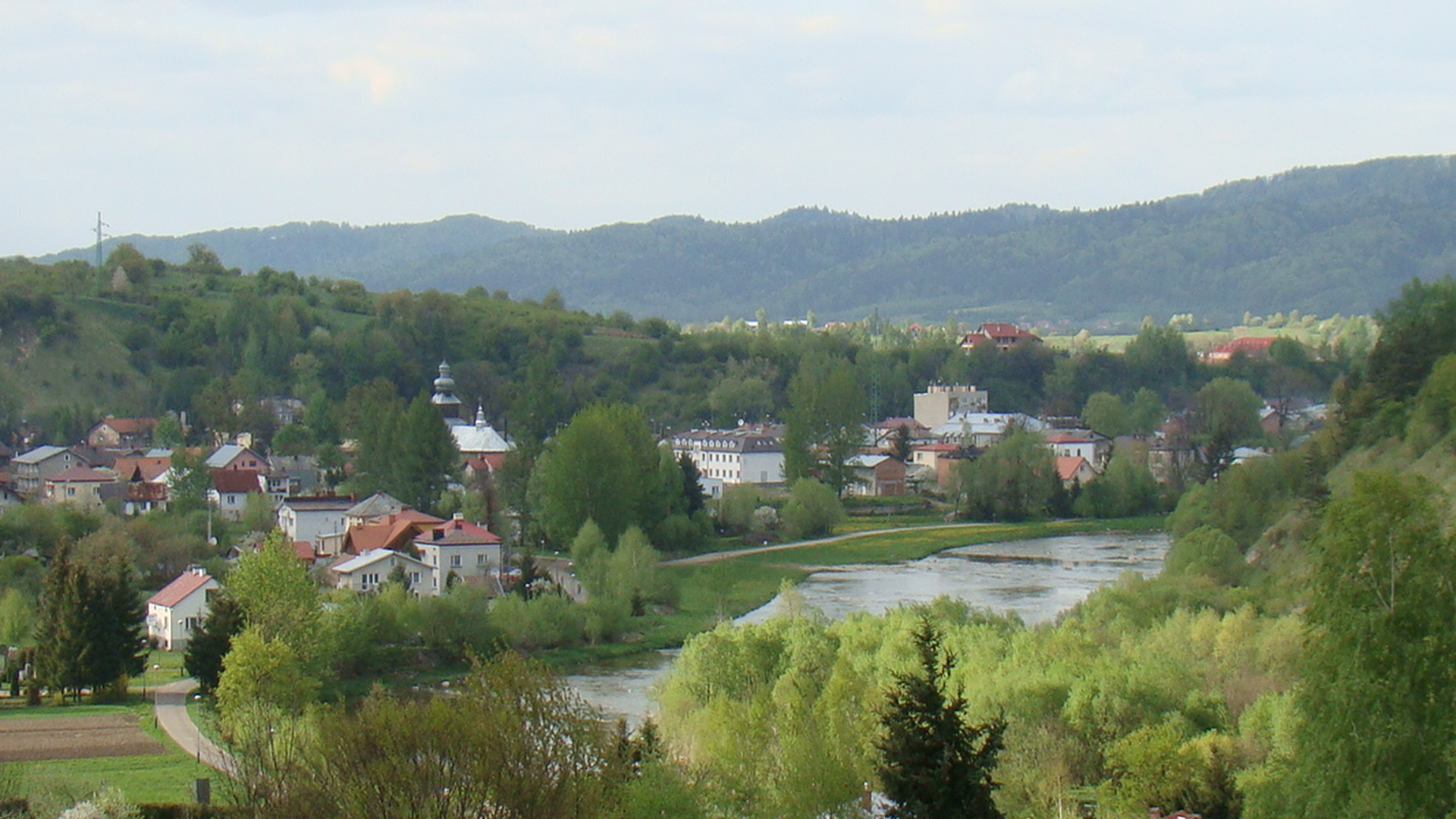 City of Zagórz. Sanok county.